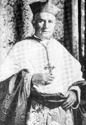 Patrick Cardinal Hayes